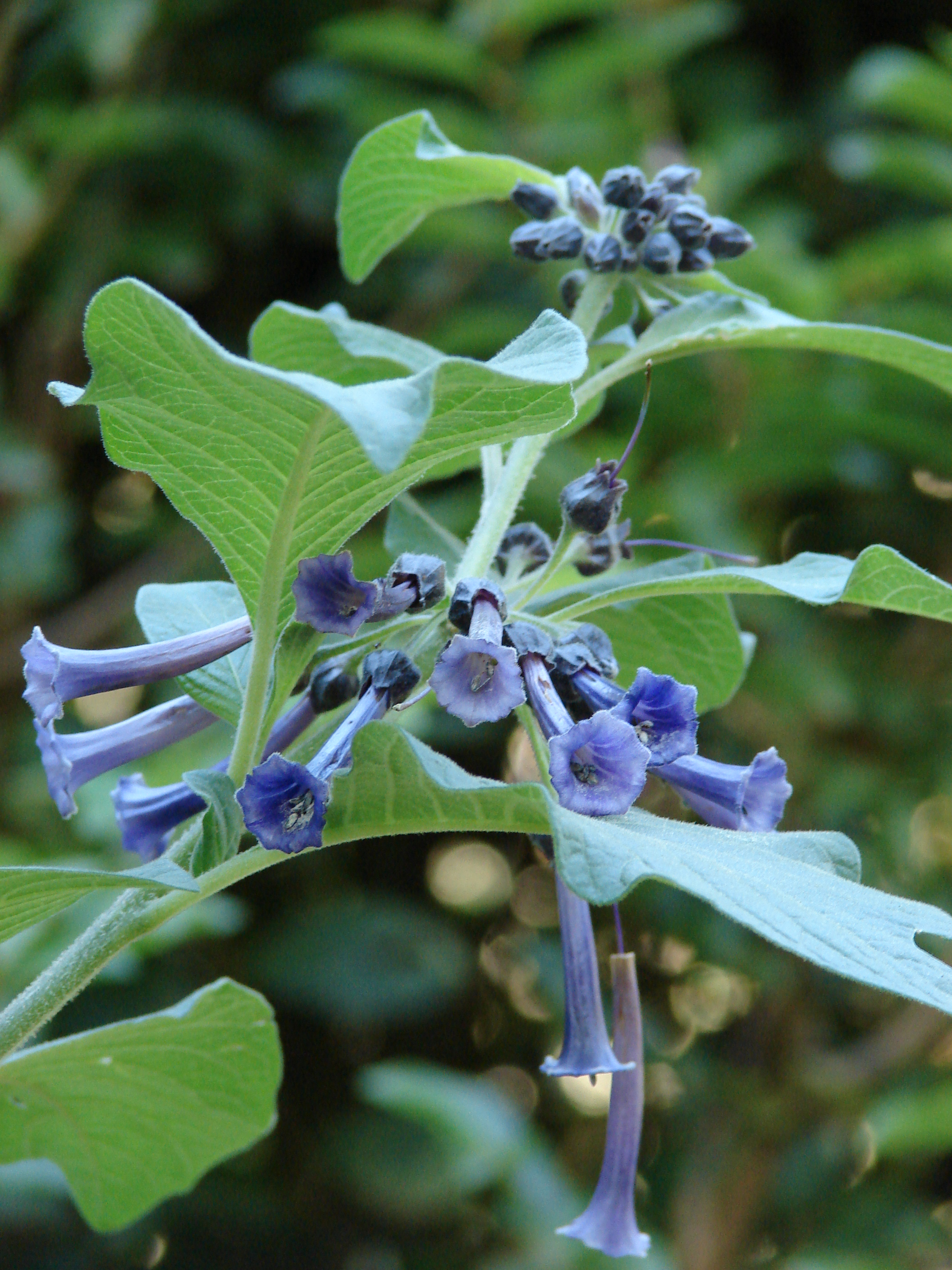 Iochroma cyanea (flowers and leaves). Location: Maui, Enchanting Floral Gardens of Kula